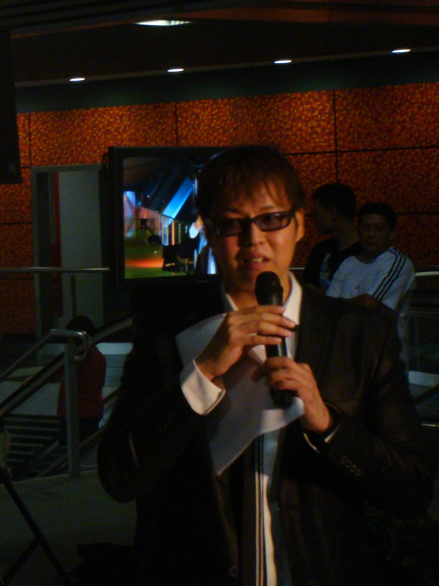 Glenn Ong, Singapore DJ, hosting the Charity Runway event at Paya Lebar MRT Station during the Circle Line Discovery Open House (Stages 1 and 2).